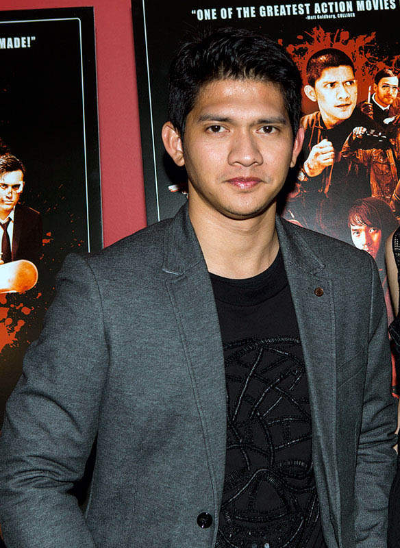 Iko Uwais at premiere of Raid 2 in New York on 17 March 2014. Photo by Sachyn Mital.